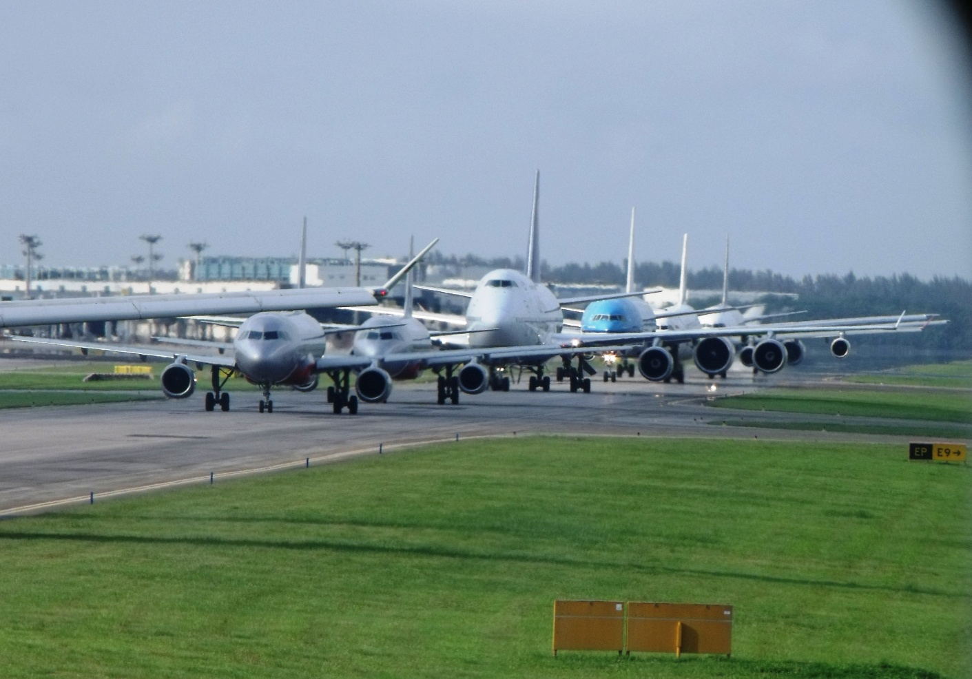 Planes queue on the taxiway in Singapore while Air TC changes the operating direction of the runway. In shot are two Jetstar A320s, a Lufthansa 747-400 and a KLM Boeing 777. Can't remember what else was in line.